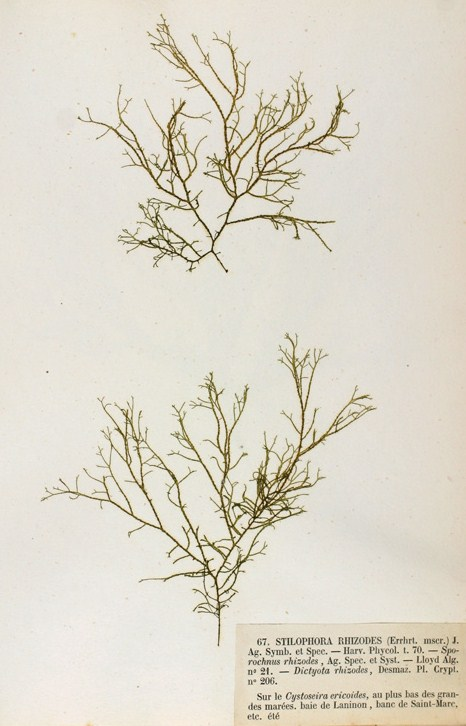 « Stilophora rhizoides » = Stilophora tenella